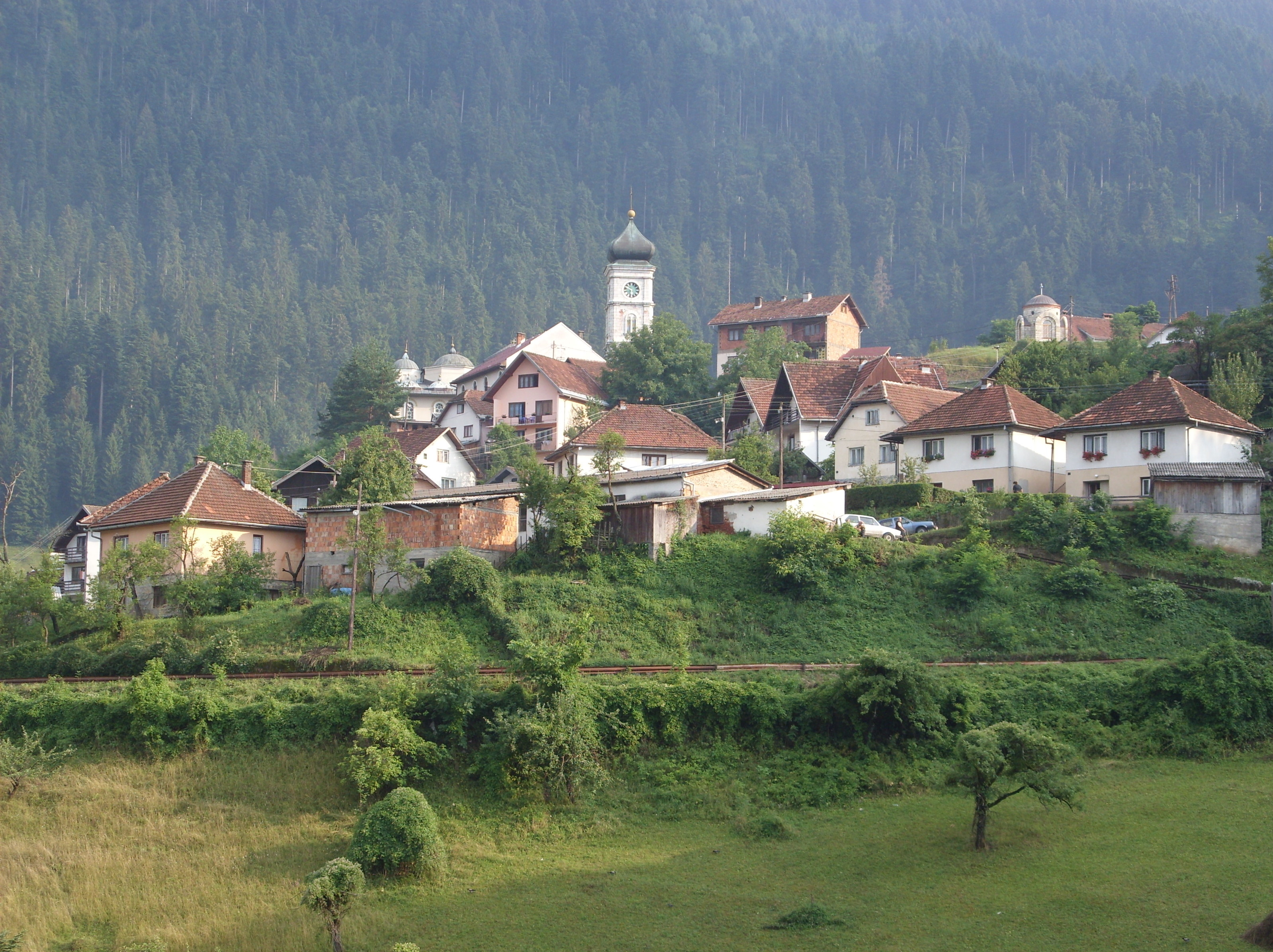 View on Čajniče (Bosnia and Herzegovina).